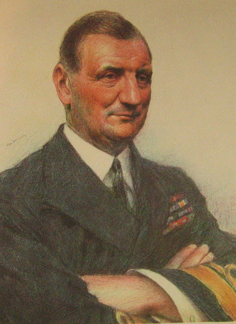 Portrait of Sir Edward Heaton Ellis from volume of around 100 drawings of members of the allied forces during 1st World War. Originals in Museum of Legion of Honour, Paris.